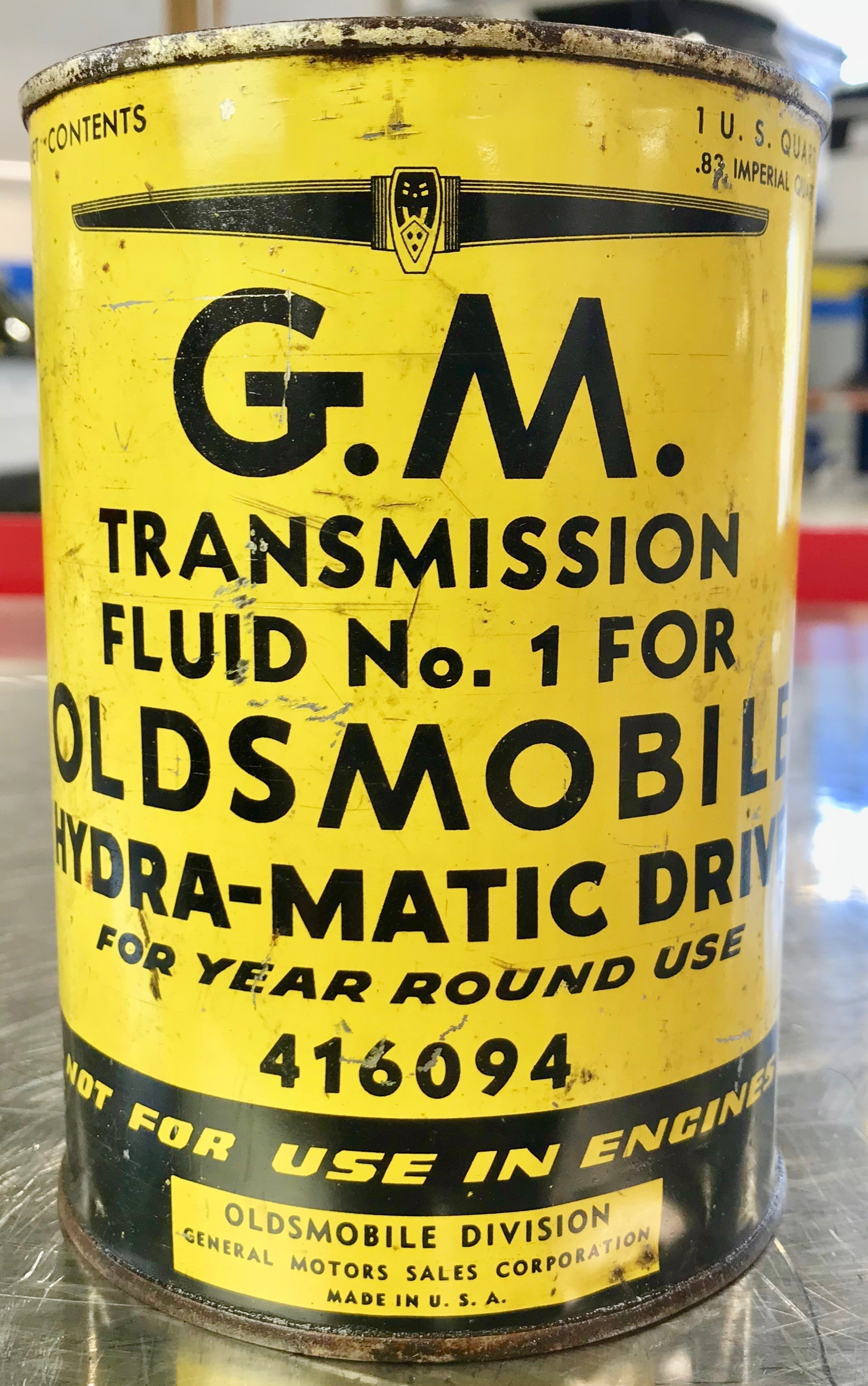 The original 1940 GM Transmission Fluid No. 1 for Oldsmobile Hydra-Matic Drive